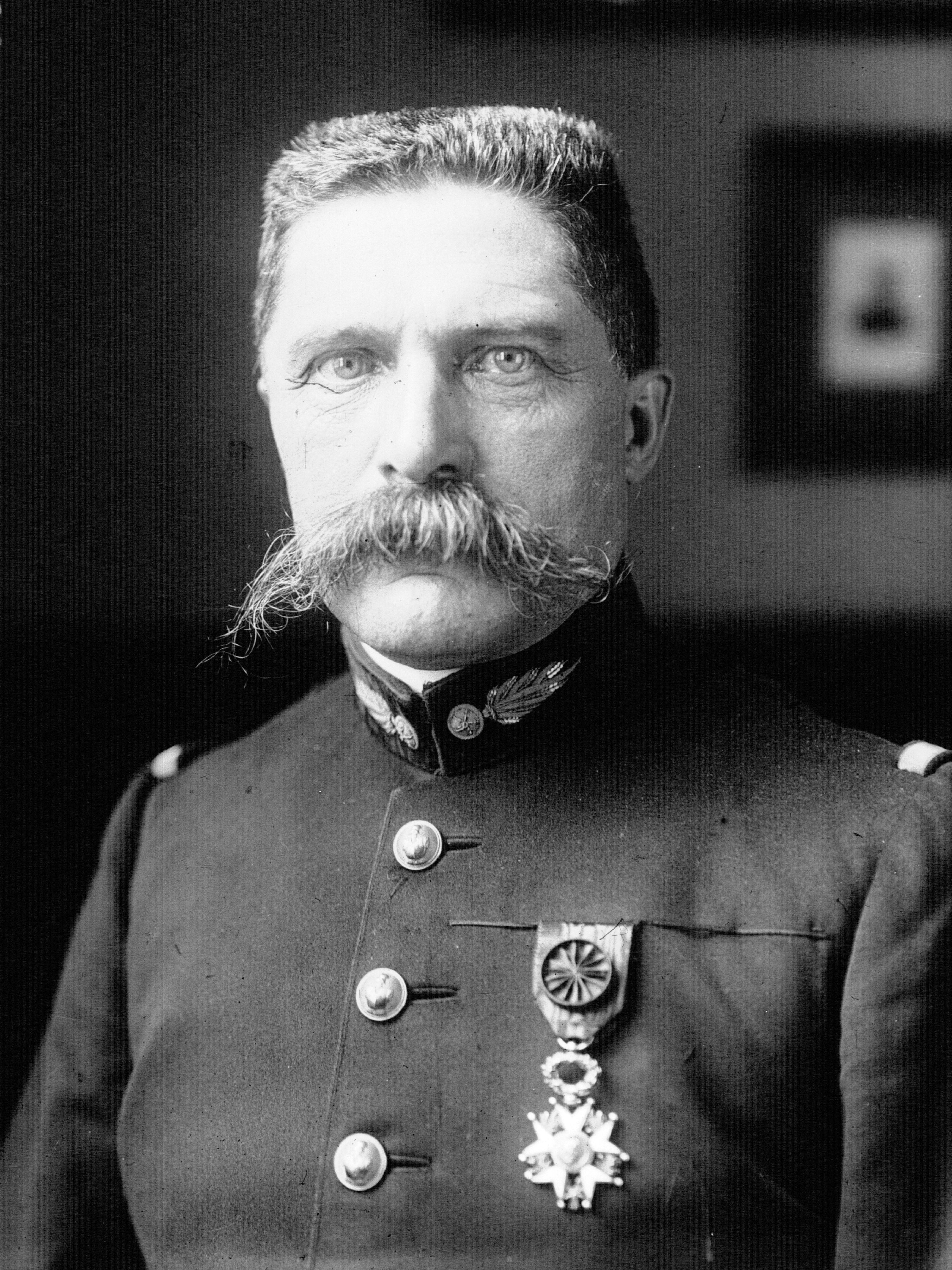 French general Auguste Édouard Hirschauer (1857-1943) as colonel in 1912.